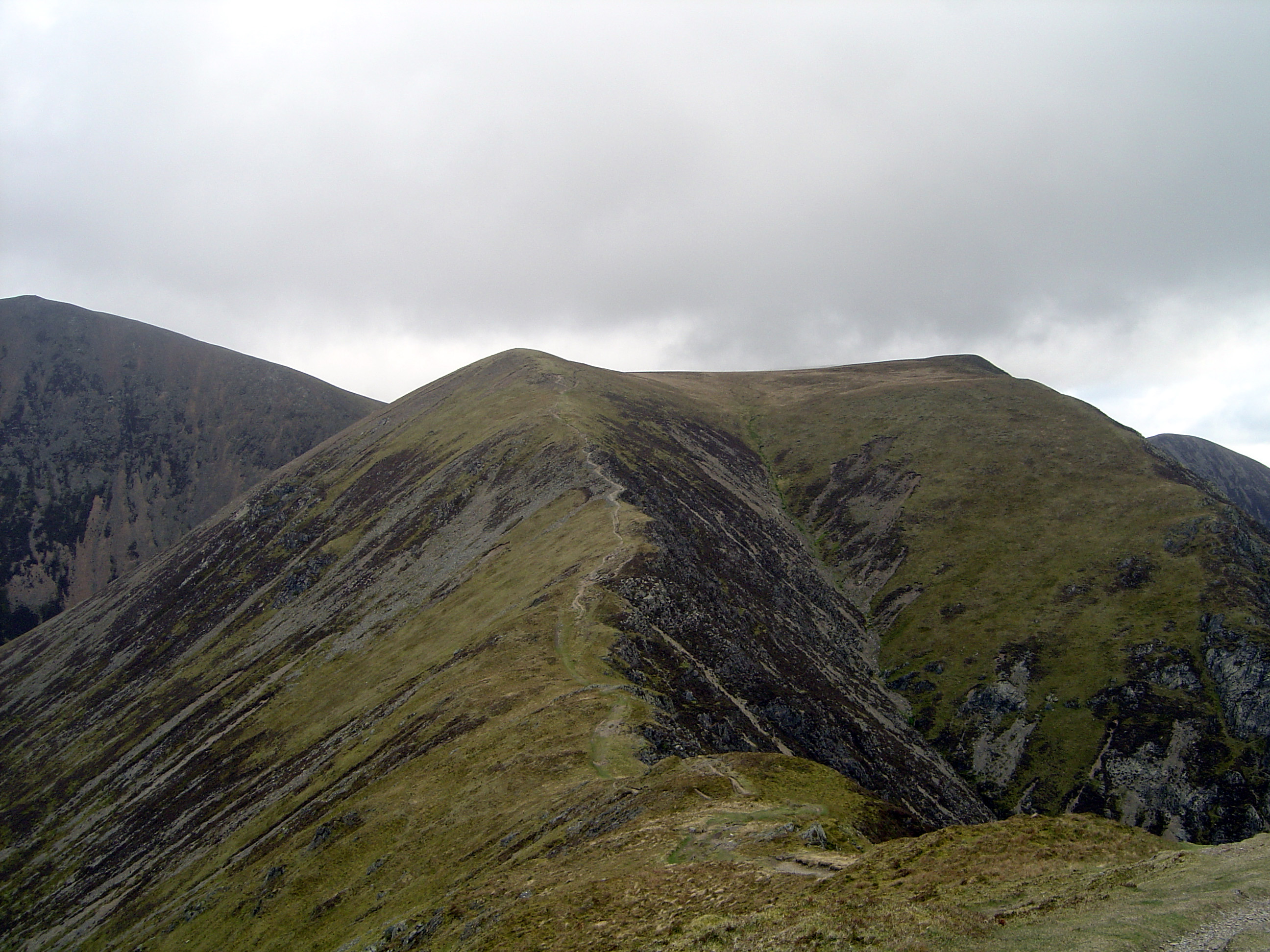 Whiteless Edge and Wandope from Whiteless Pike, 17/04/2007